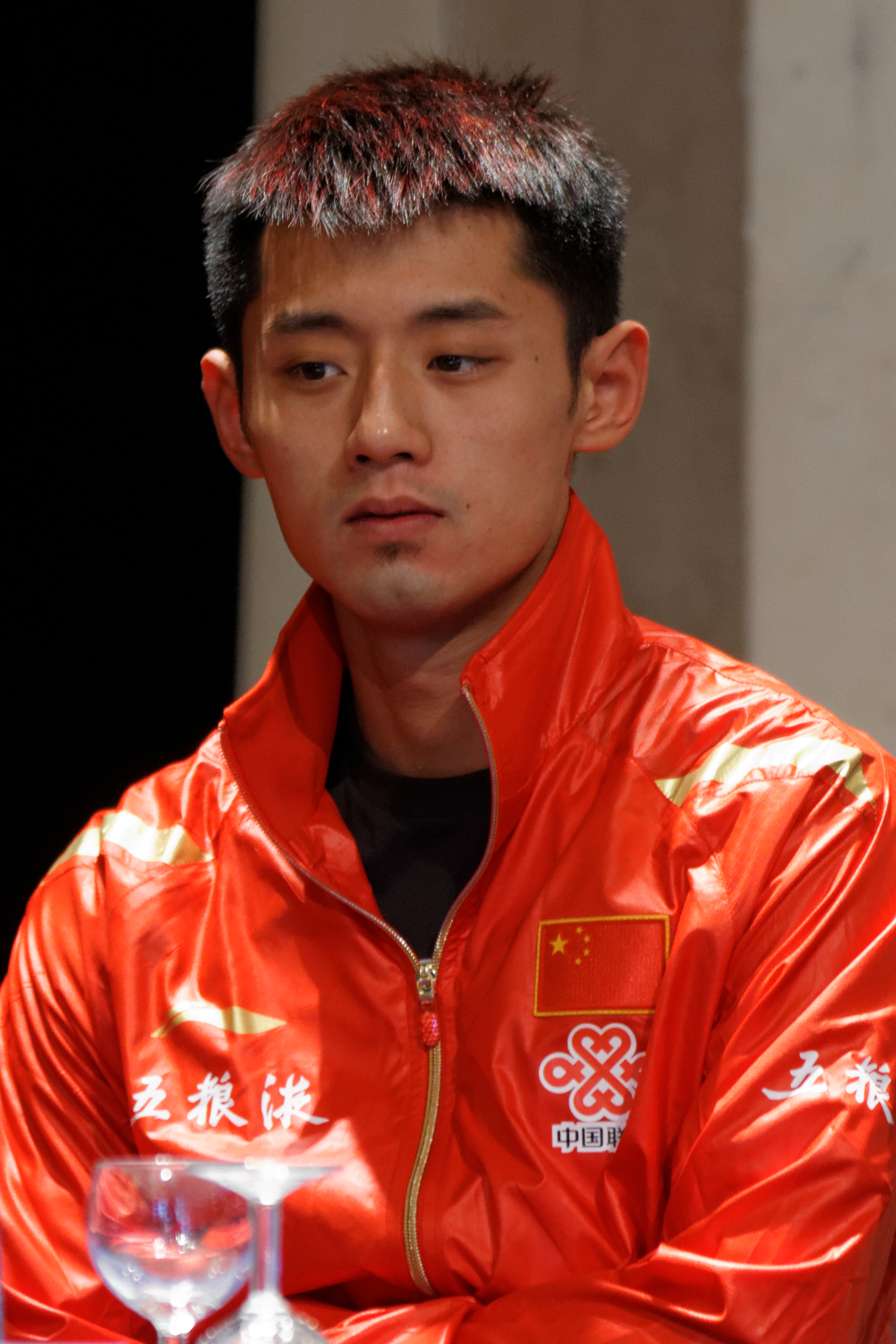 Championnats du monde de tennis de table, Paris. Conférence de presse et tirage au sort.